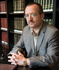 Prof. Aurel Plasari (born 1956) is an Albanian lecturer, scholar, writer, translator and professor. Director of the ALbanian National Library